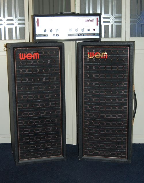 WEM 100 PA rig